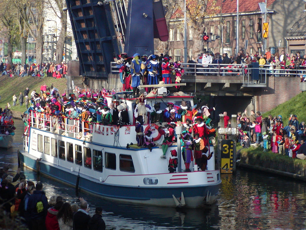 Saint Nicholas arriving by boat